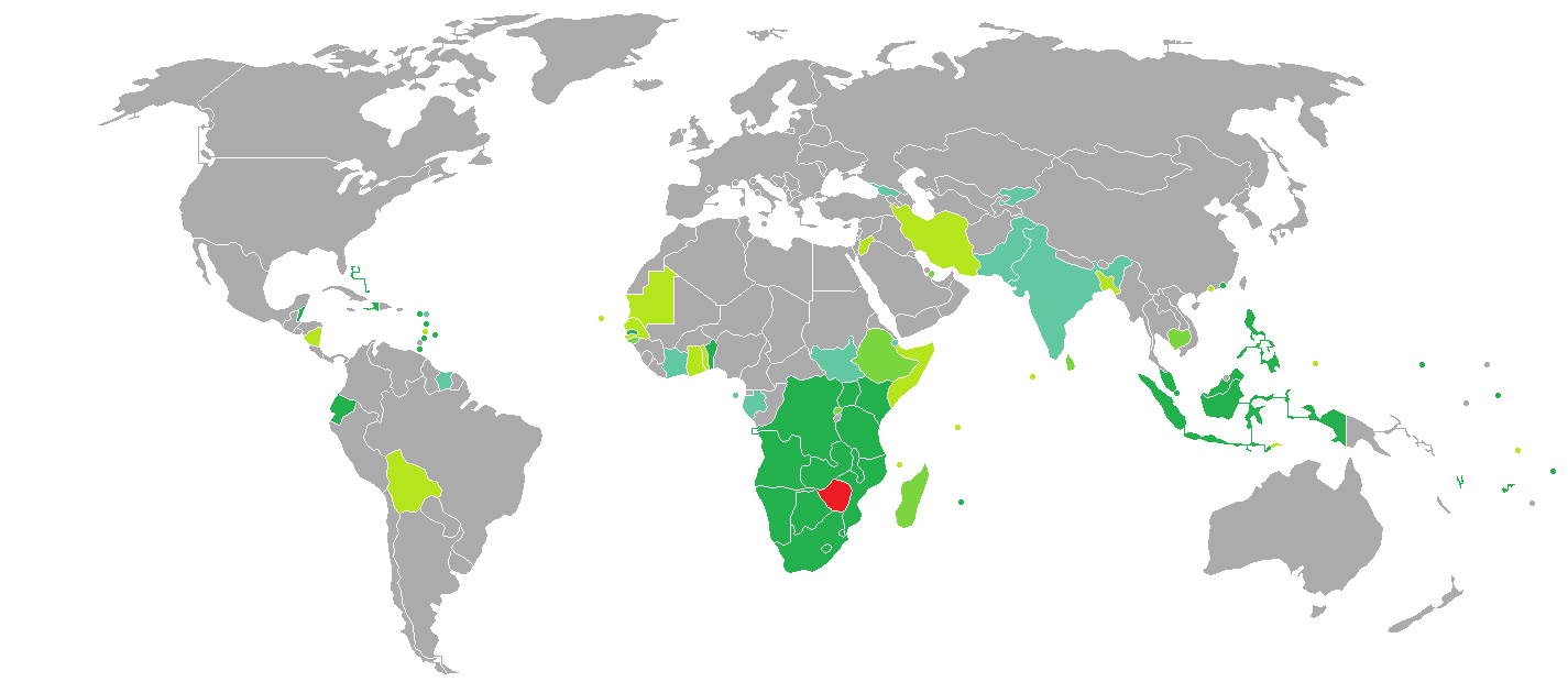 Visa requirements for Zimbabwean citizens Zimbabwe Visa free access Visa on arrival eVisa Visa required